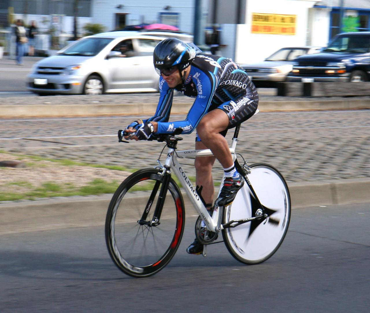 Valeriy Kobzarenko. Third rider to start, Navigators, 21st place today. From the Amgen Tour of California prologue in San Francisco, February 18, 2007